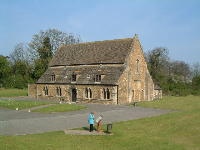 Great Hall, Oakham Castle. Taken on a lovely spring day in March 2002. The hall is well worth a visit to see the horseshoes.